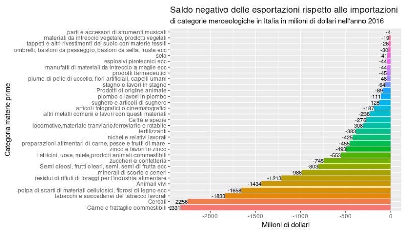 file realizzato con RStudio